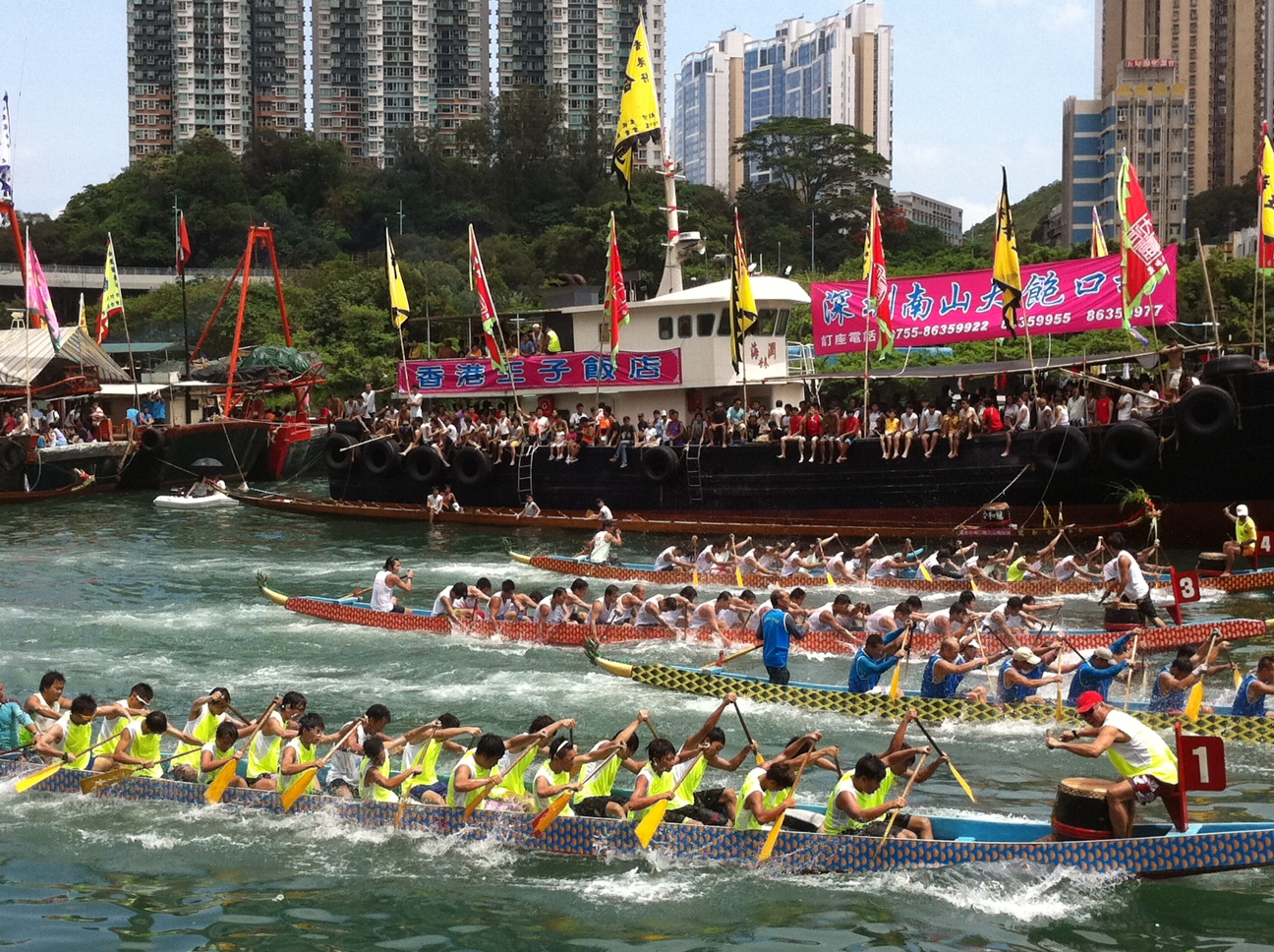 Dragon boat racing in Aberdeen, Hong Kong. - more